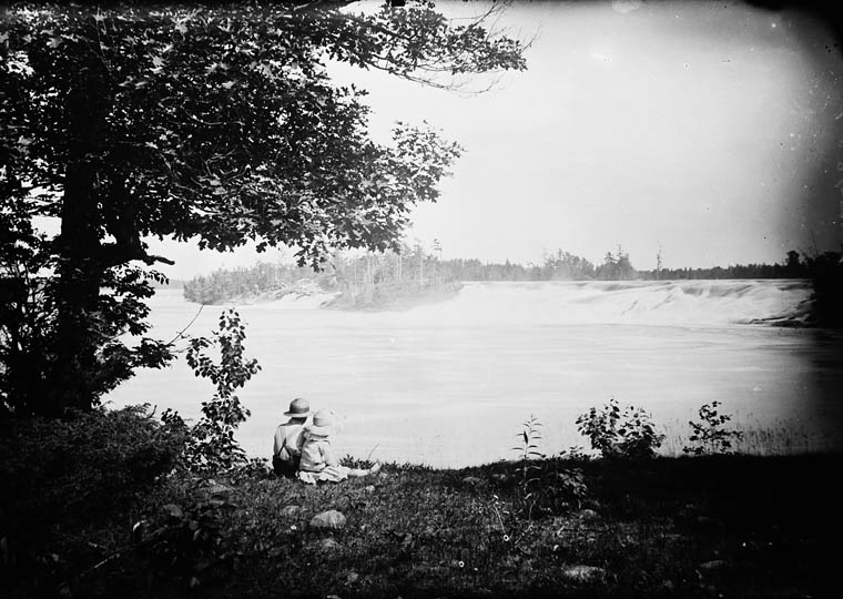 Mohr's chute of Chats Falls, Ottawa River, Canada